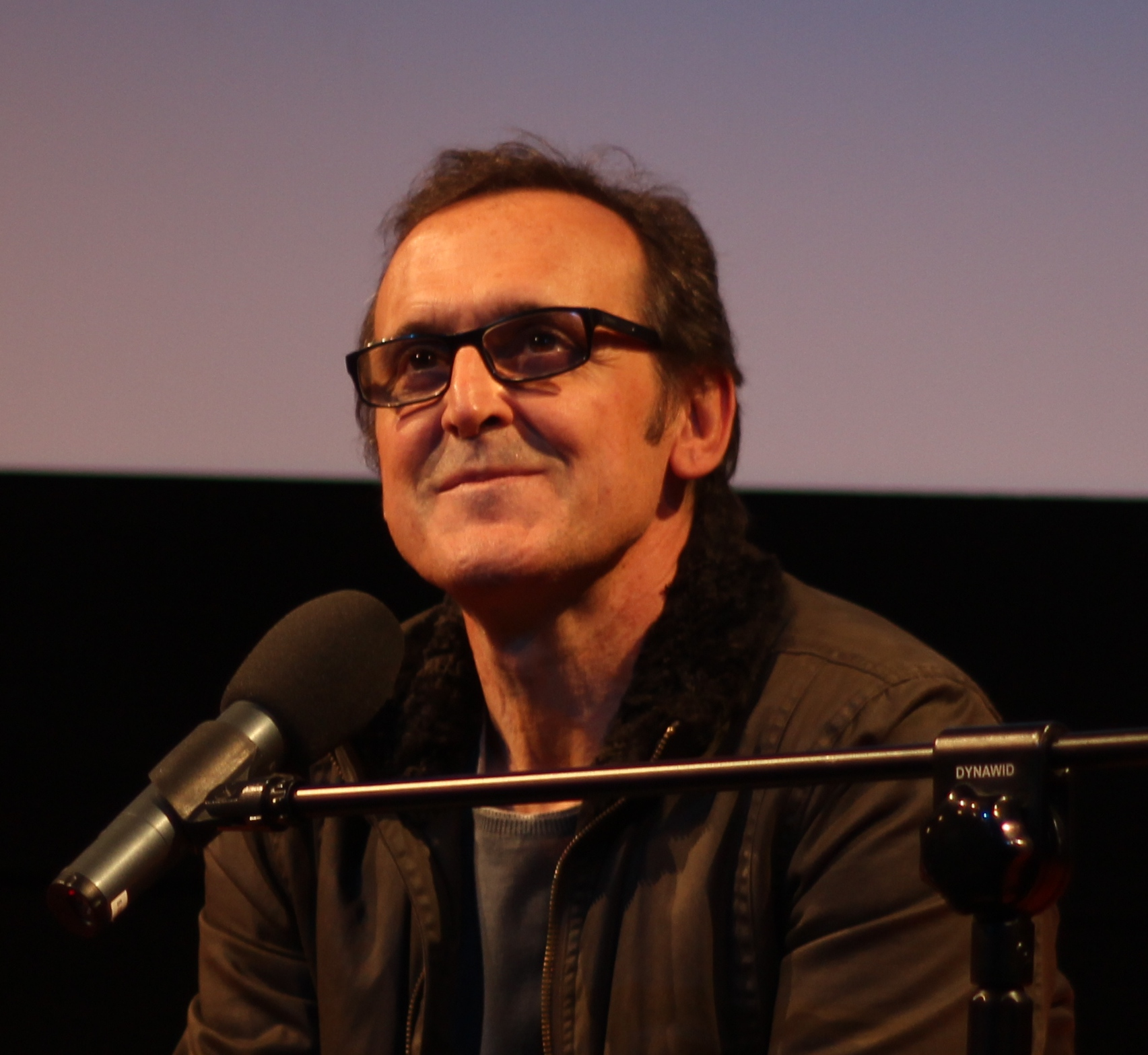 Alberto Iglesias, a Spanish composer well known for work with Pedro Almodóvar, during 6th edition of Film Music Festival (FMF) in Cracow.